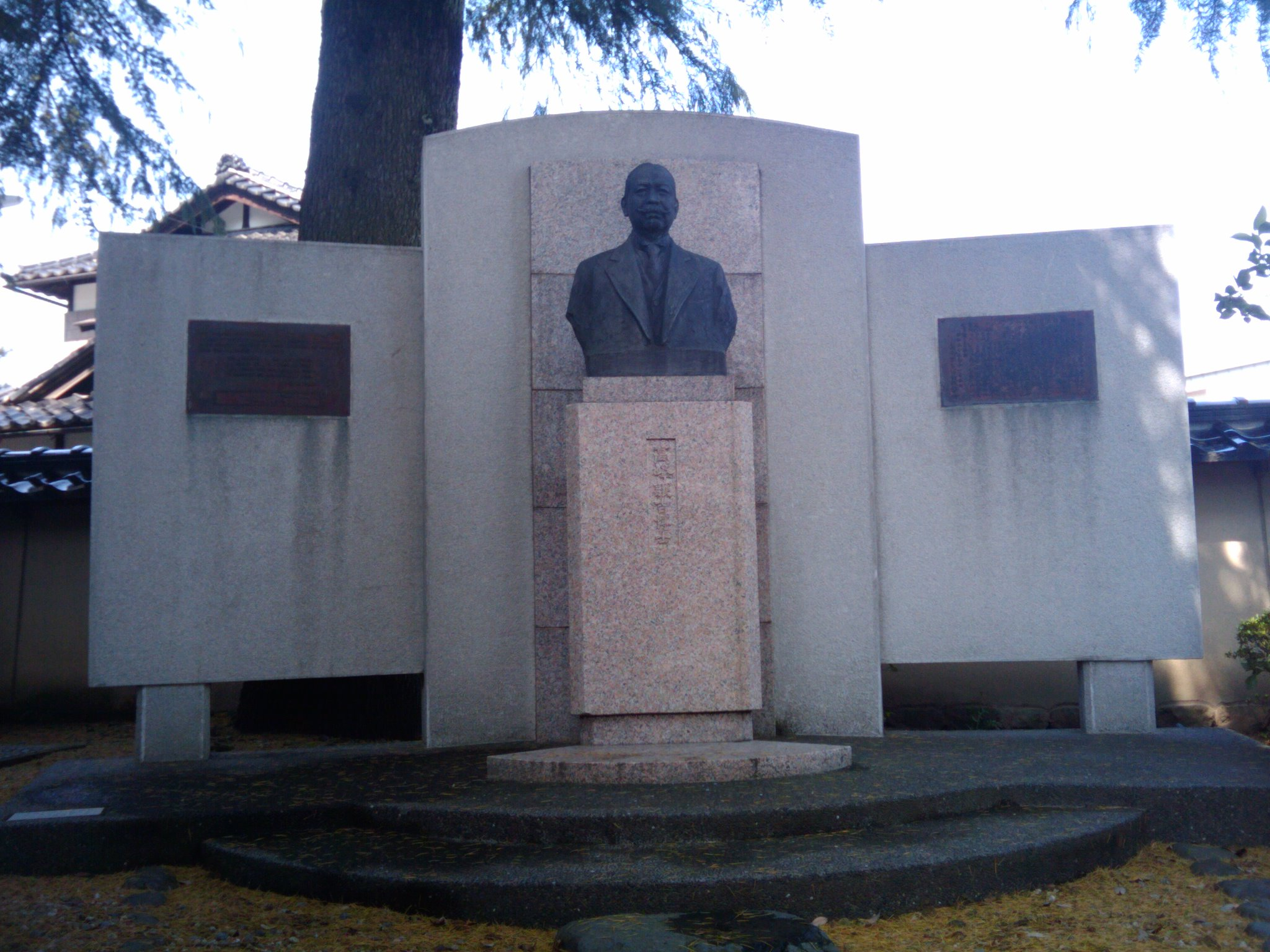 The Statue of Jokichi Takamine (Kanazawa, Ishikawa, Japan)